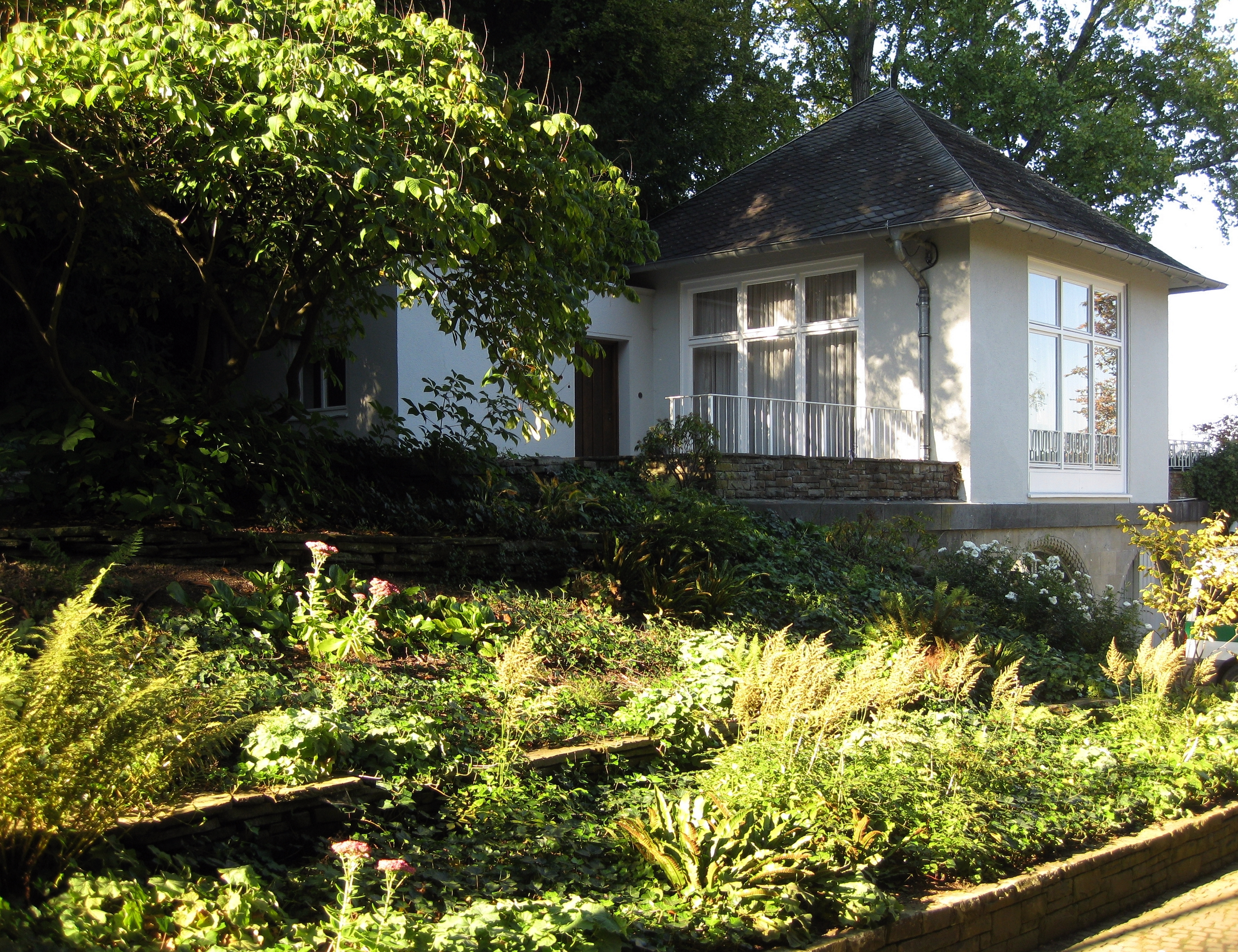 Bonn: Kanzler-Teehaus (Chancellor's Tea House; built in 1955) in the park of the Palais Schaumburg.